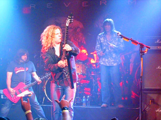 Frank Hannon on Guitar, Jeff Keith, and Brian Wheat on Bass at the Chance Theater in Poughkeepsie, NY. April 27, 2009.